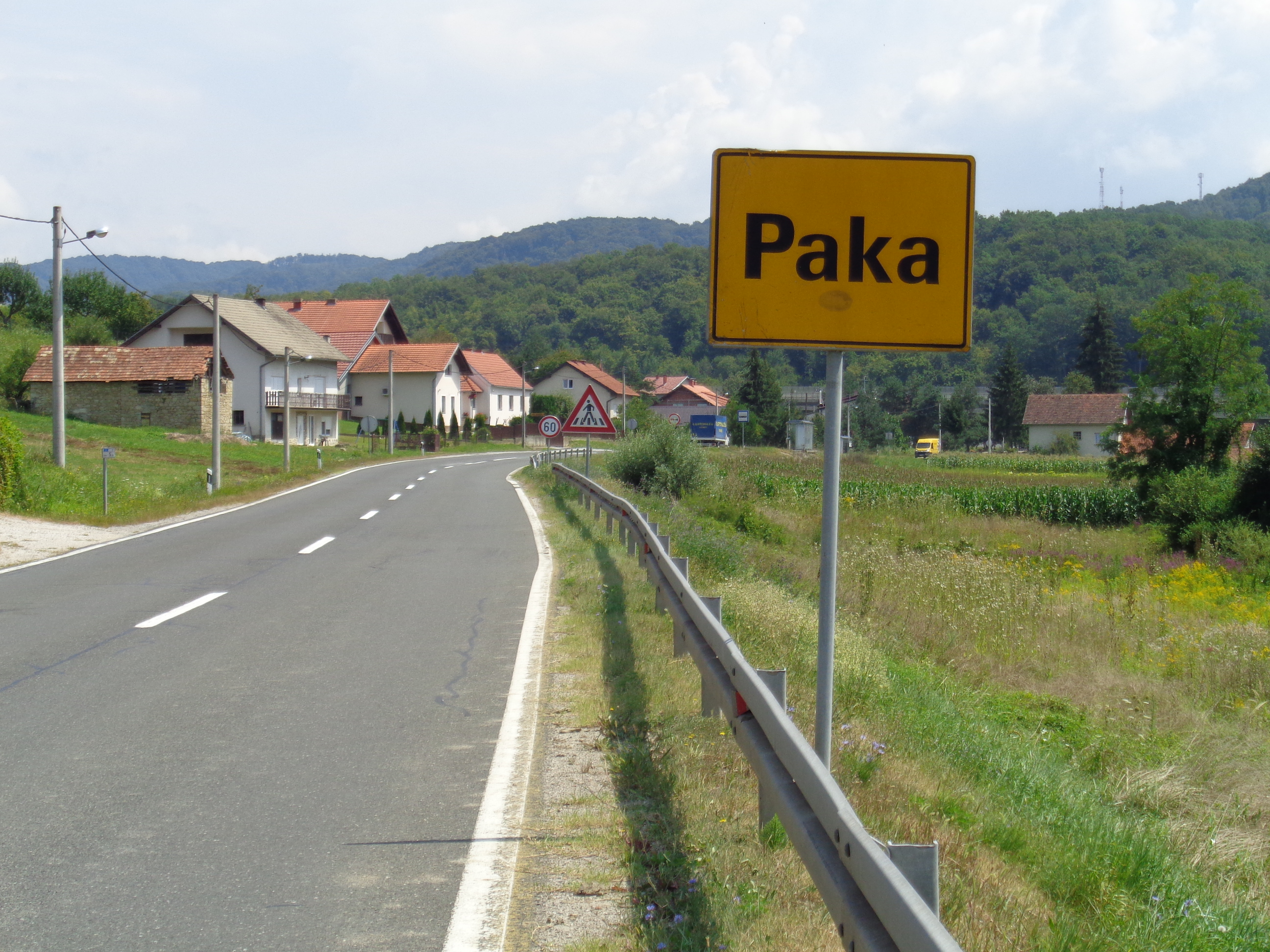 Paka, a village in the Town of Novi Marof, Varaždin County, Croatia - entrance